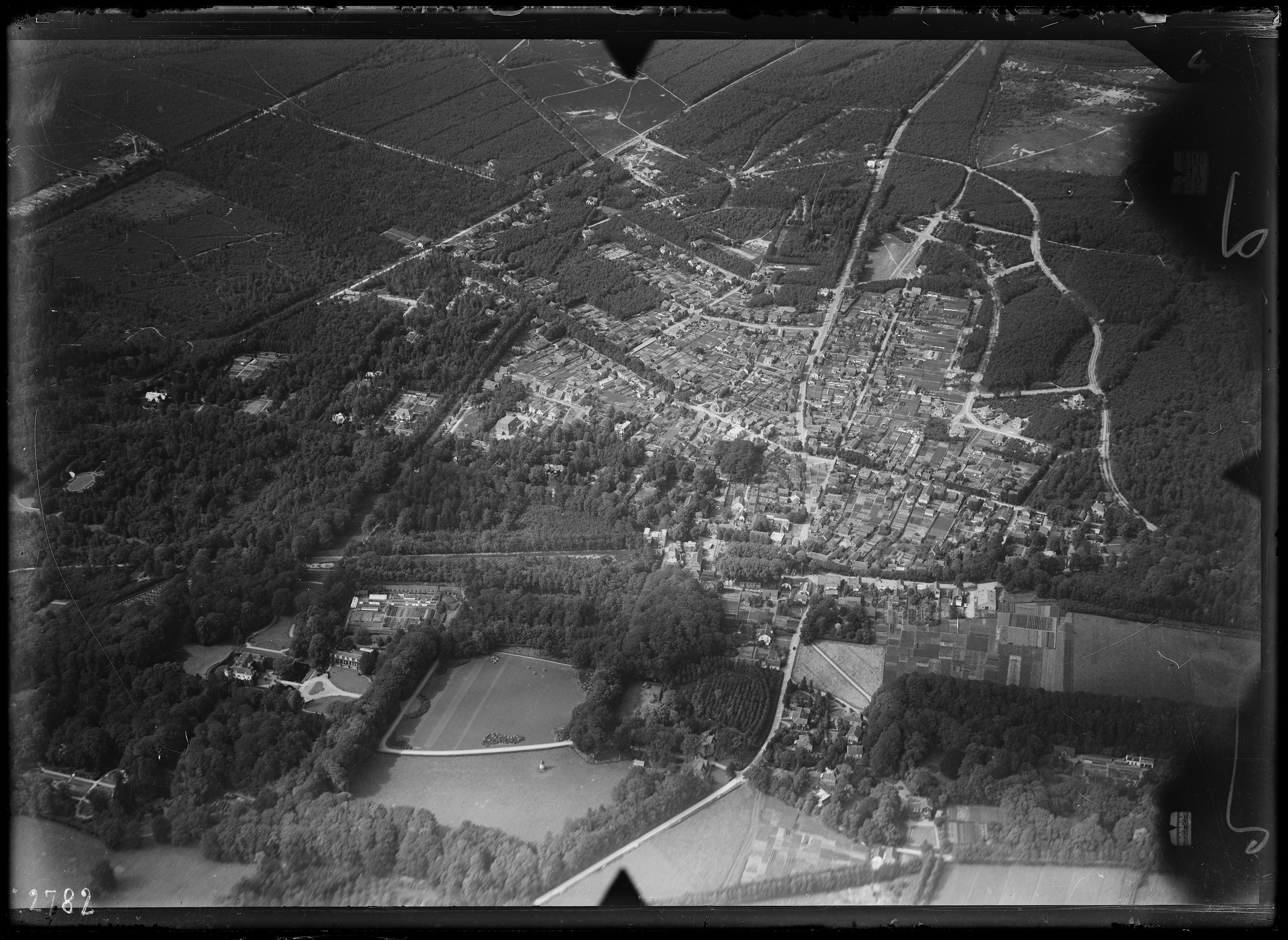 Aerial photograph of Doorn, The Netherlands